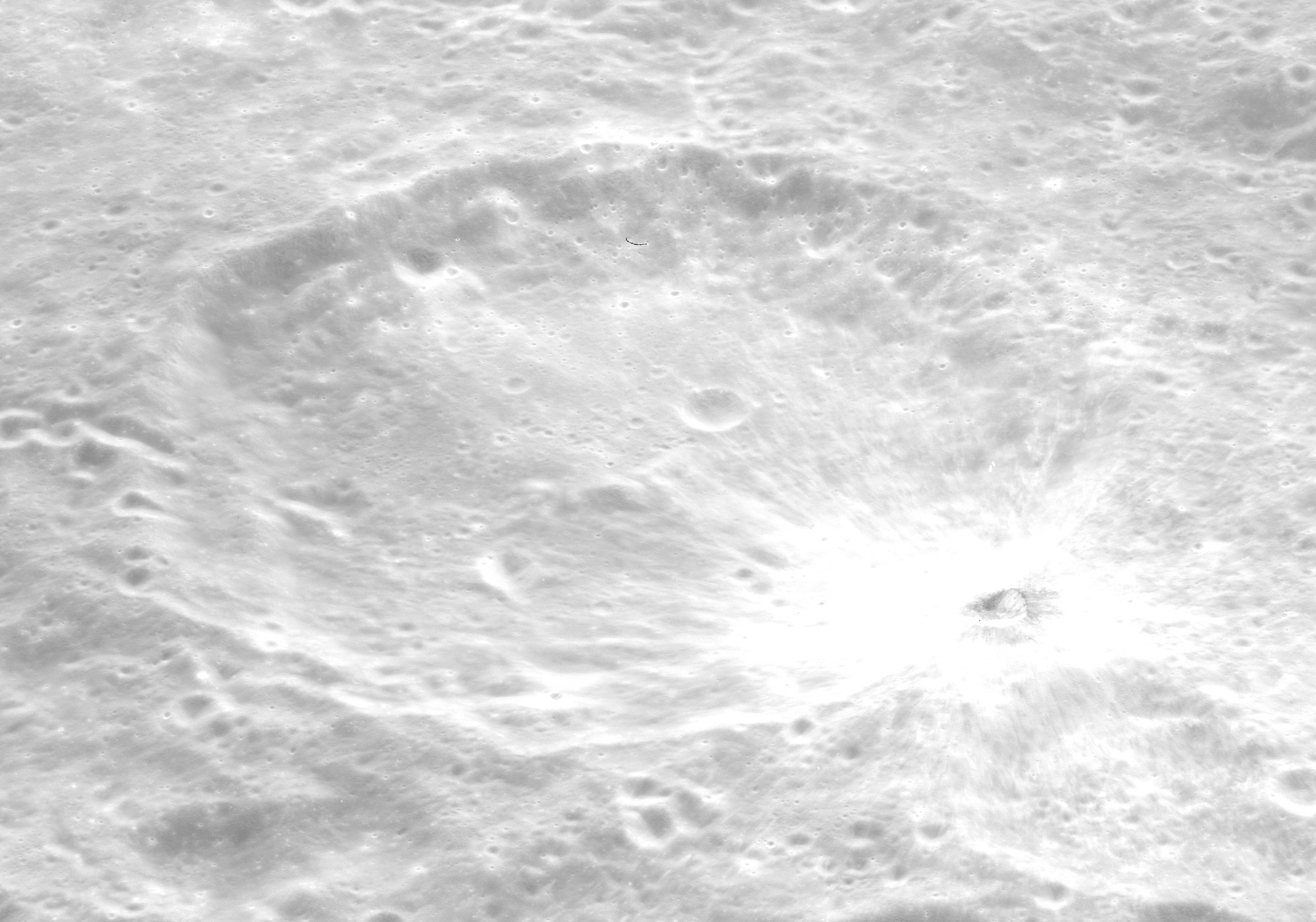 Oblique view of Gibbs crater, on the moon. Taken by Apollo 17 panoramic camera during Trans-Earth Injection. Rotated so foreground is at bottom, and brightness and contrast adjusted, using GIMP.